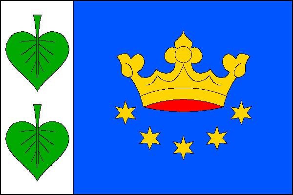 Municipal flag of Pertoltice village, Liberec District, Czech Republic.